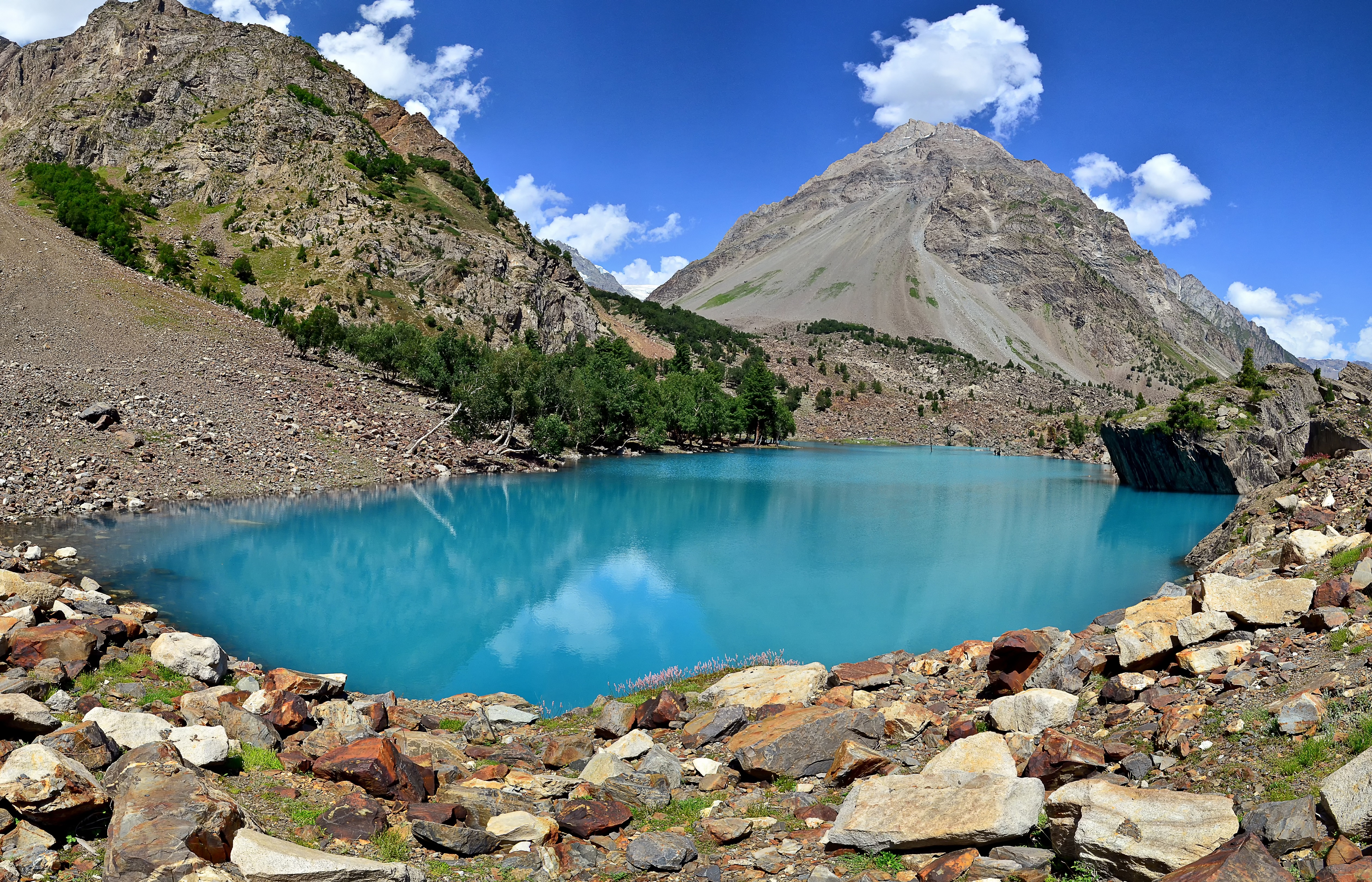 A blue glacial lake in Naltar Valley, Gilgit Baltistan